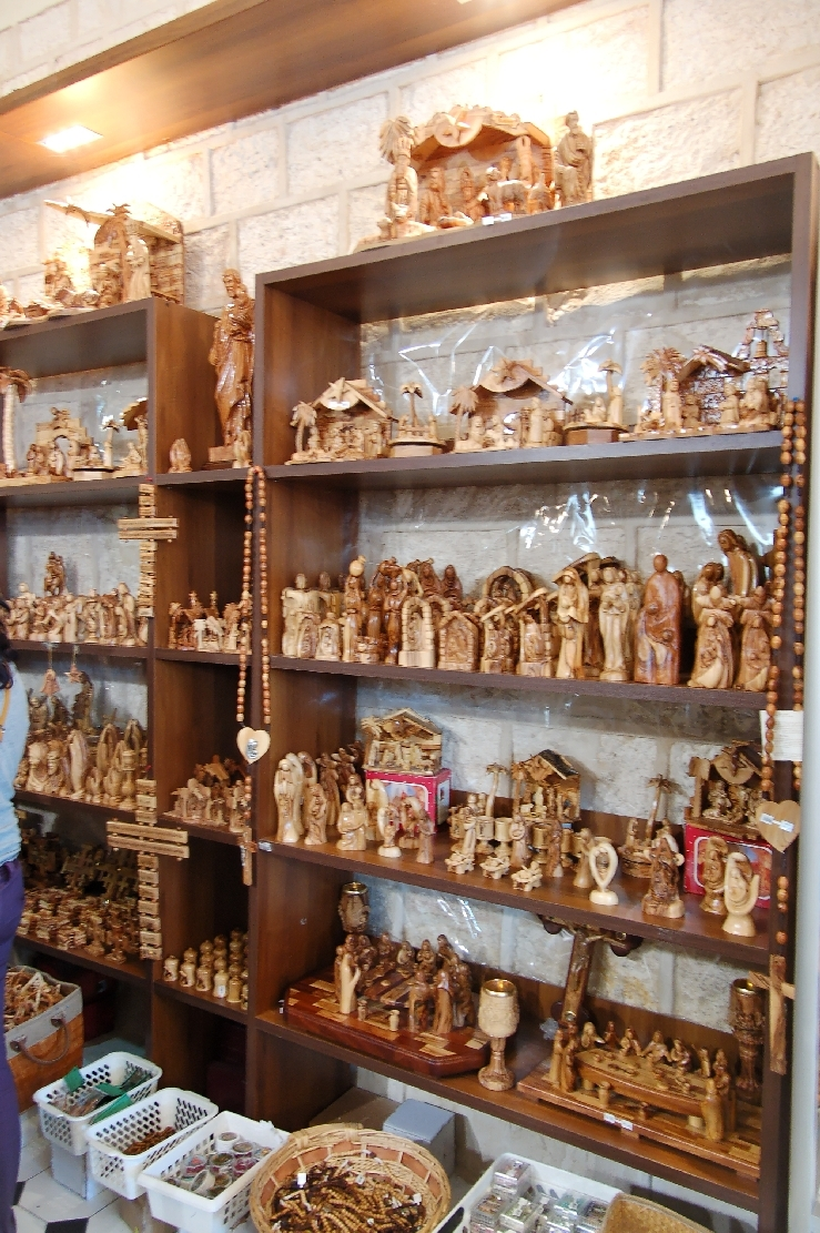 Impressions Wikimania 2011 Haifa